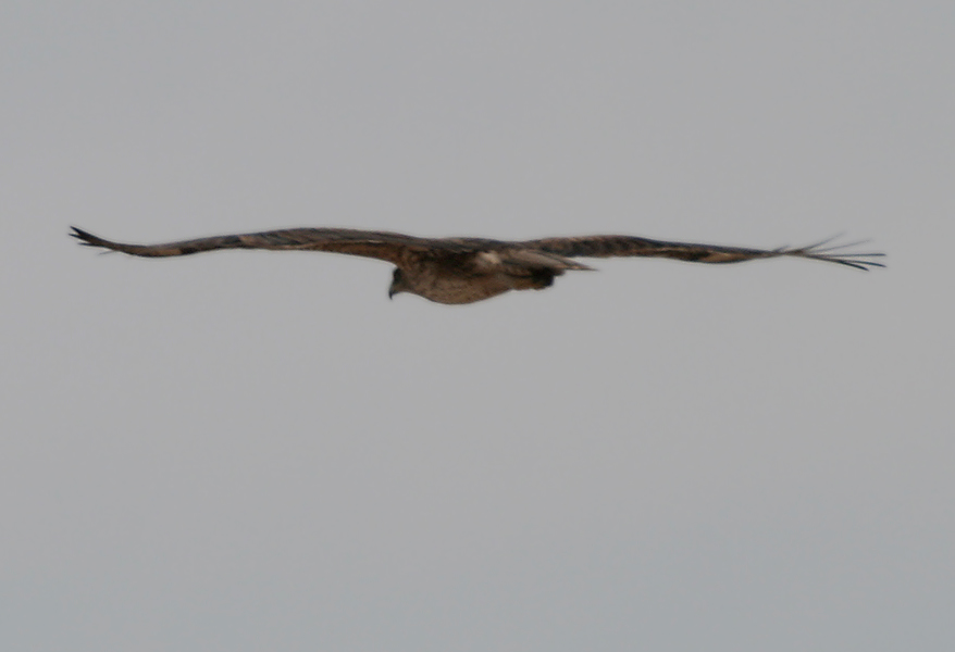 Bonelli's Eagle Aquila fasciata in Bhongir Fort, Andhra Pradesh, India.